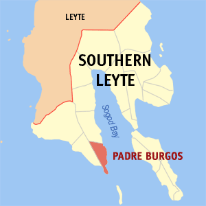 Map of Southern Leyte showing the location of Padre Burgos